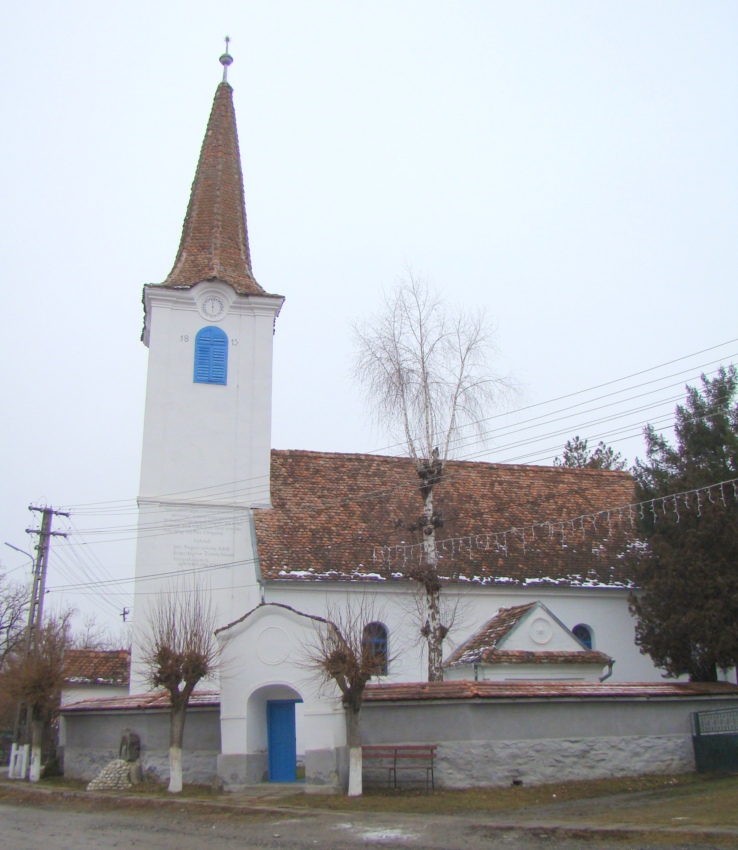 Reformed church in Solocma, Mureș County, Romania